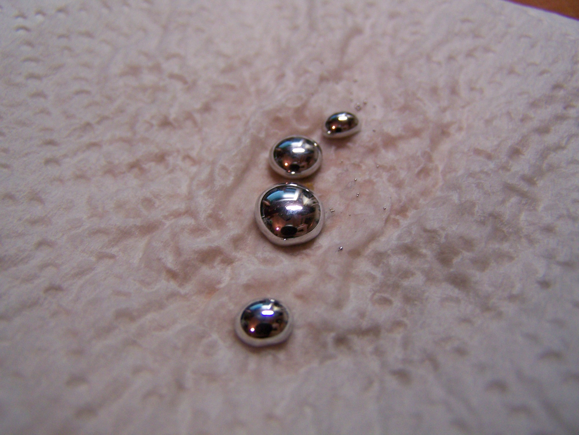 Mercury (element)